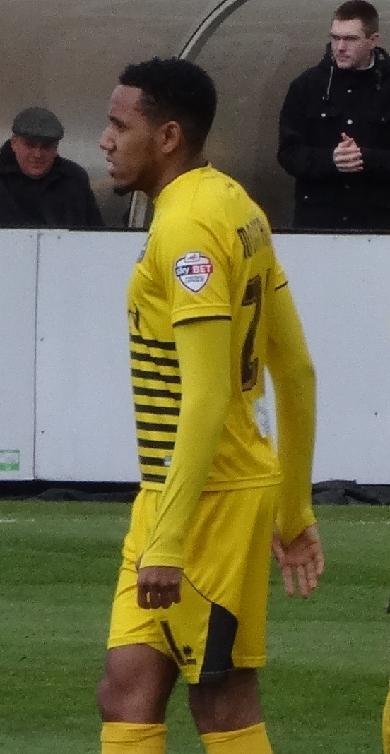 Cristian Montaño playing for Bristol Rovers against York City at Bootham Crescent, York on 30 April 2016